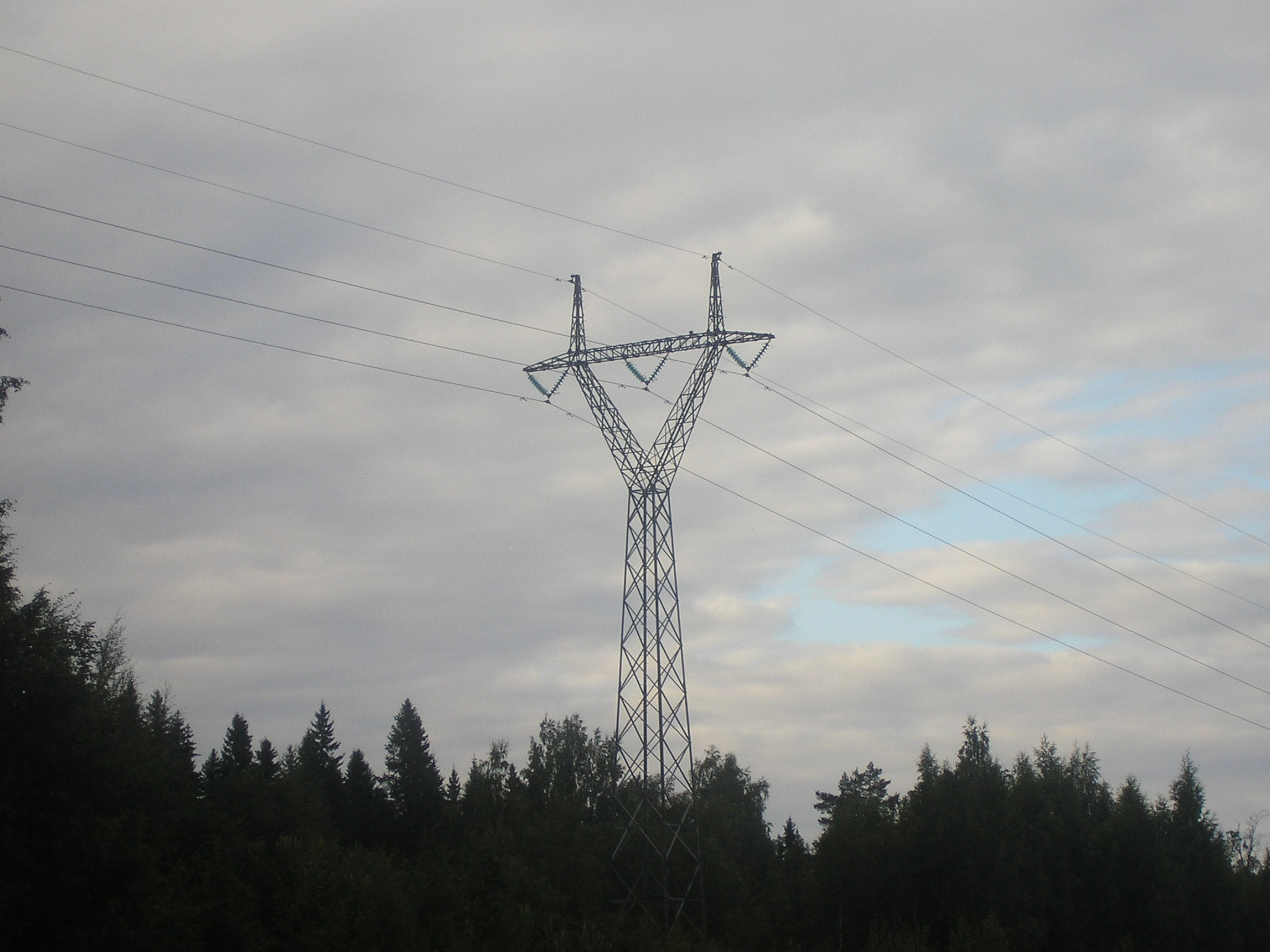 Power line pylon in Muurame, Finland.